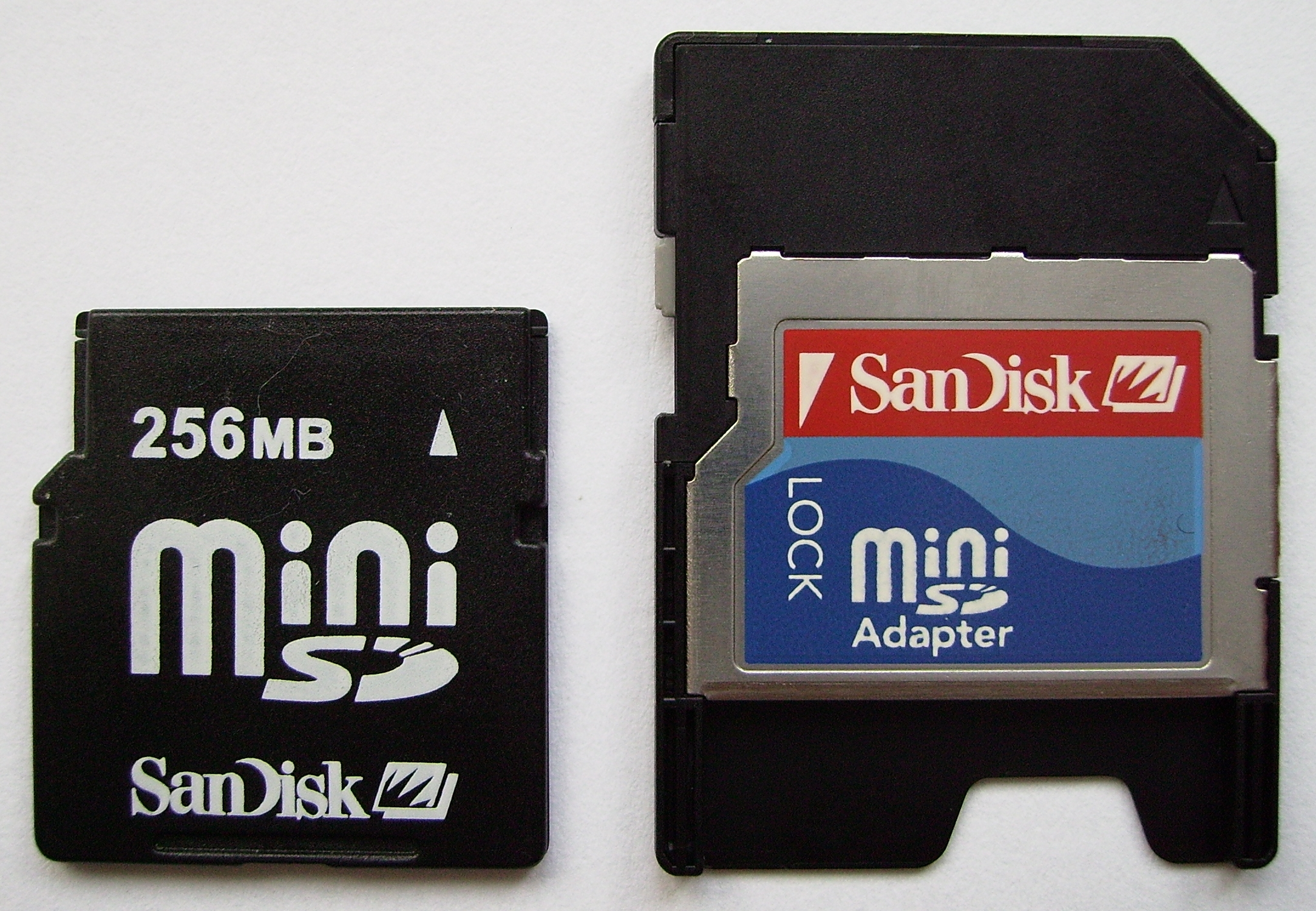 MiniSD memory card with adapter, so it also fits in a device that only supports standard size SD memory cards.